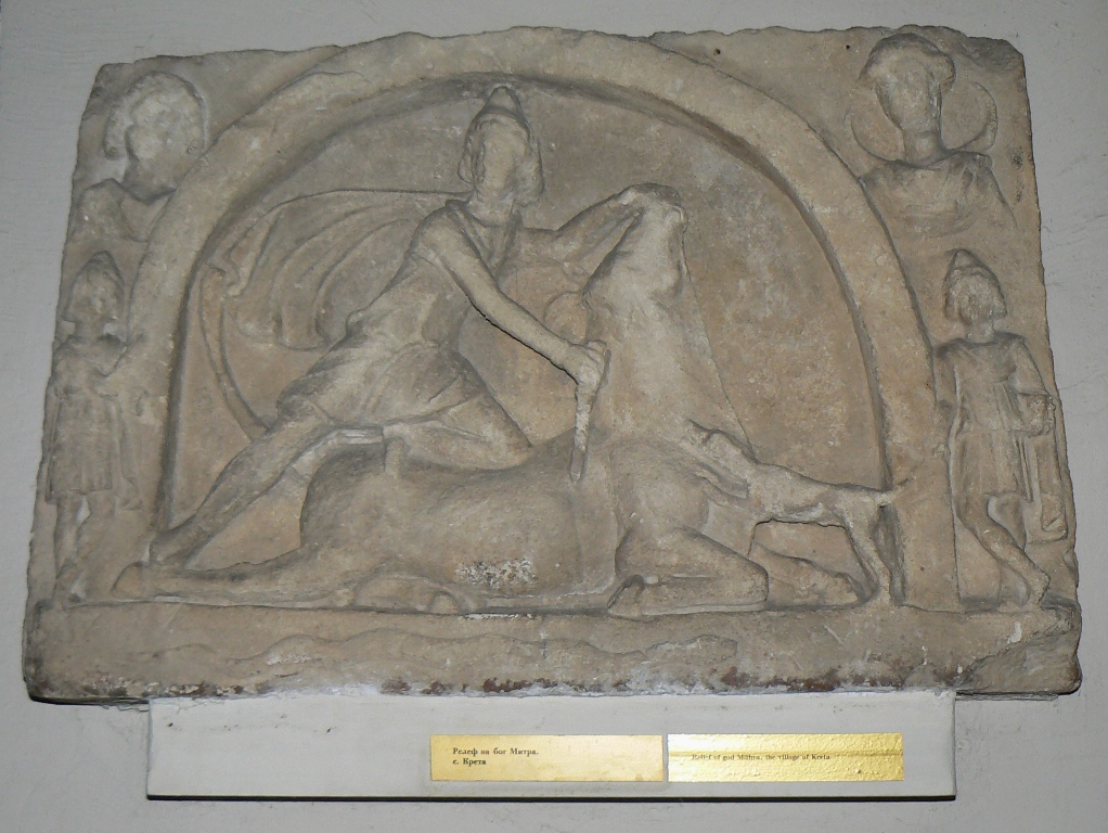 Relief of Roman Mithras, discovered near village Kreta, now in Pleven history museum, Bulgaria (CIMRM 2257)